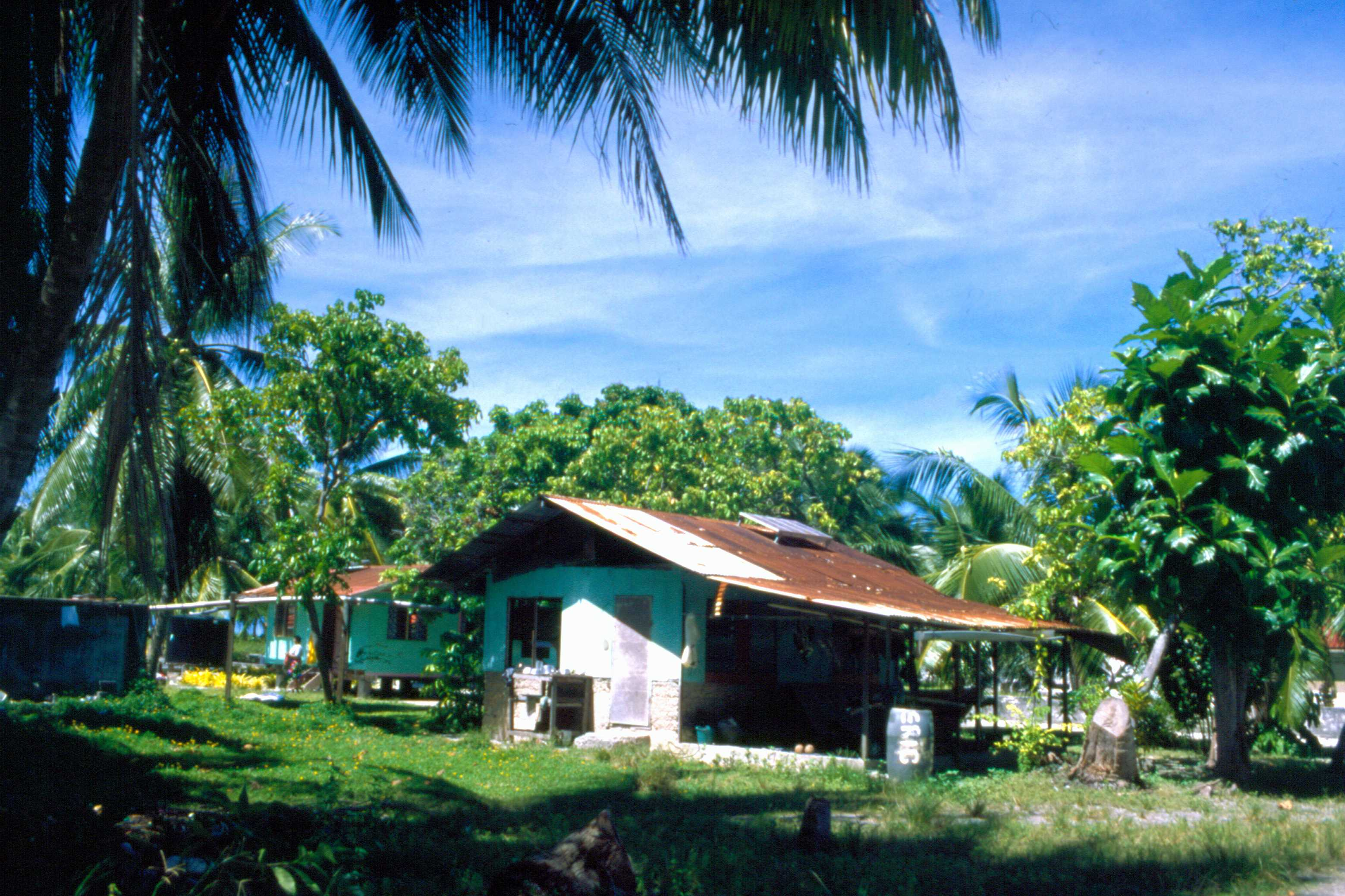 Village of Turipaoa, Manihi Atoll, Tuamotu Archipelago, French Polynesia